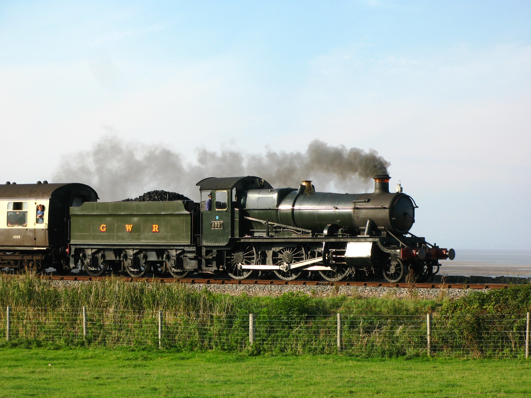 'Mogul' 9351 approaches Blue Anchor station with a train from Minehead on the West Somerset Railway.